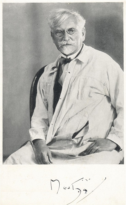 Photographic selfportrait of Alfons Mucha, 1928